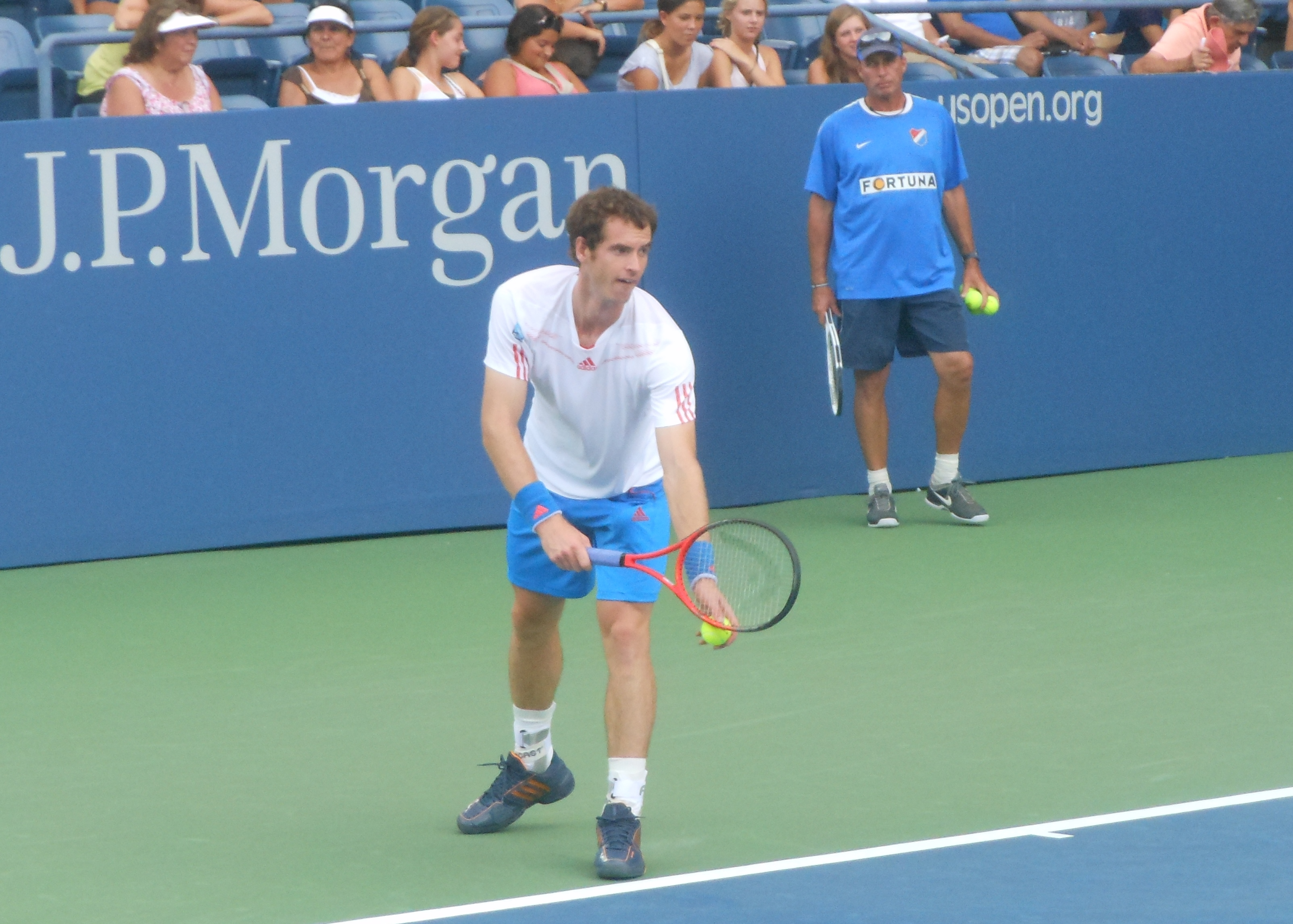 Andy Murray with coach Ivan Lendl